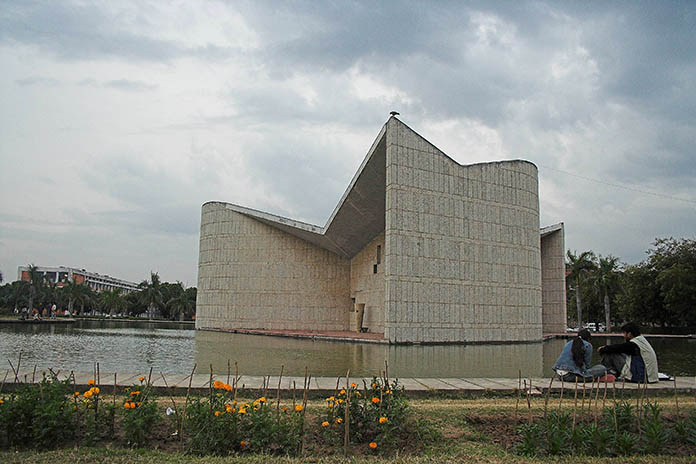 A couple sit by the Gandhi Bhawan at Punjab University under the cover of dramatic skies in Chandigarh, India.